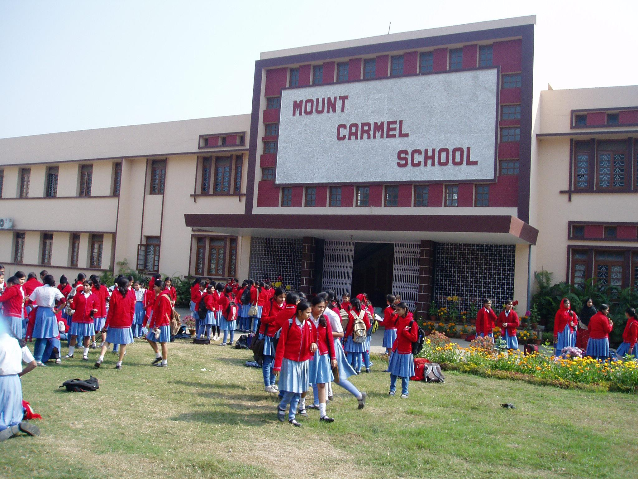 image of mount carmel school